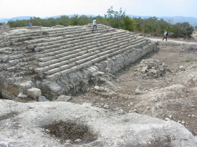 Sebastia/Shomron/Samaria. Base of Augusteum temple, originally 25 metres high.